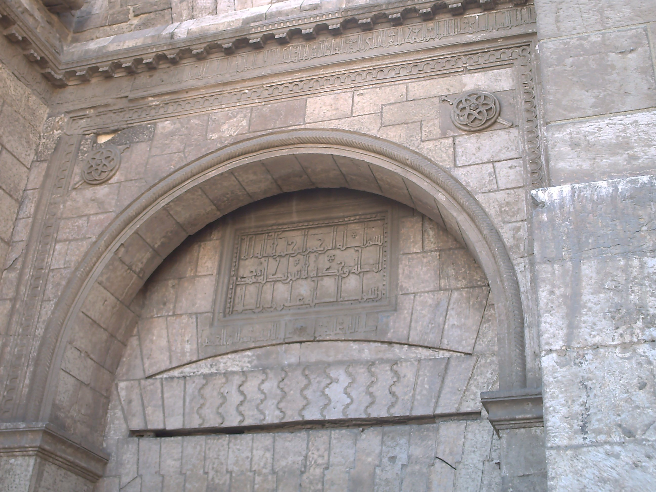 Kalema engraved on 'Bab al-Nasr', gate built by minister Badr-al-Jamali of Fatimid Caliphate/imam at northen wall of Fatimid Cairo. [1] [2]